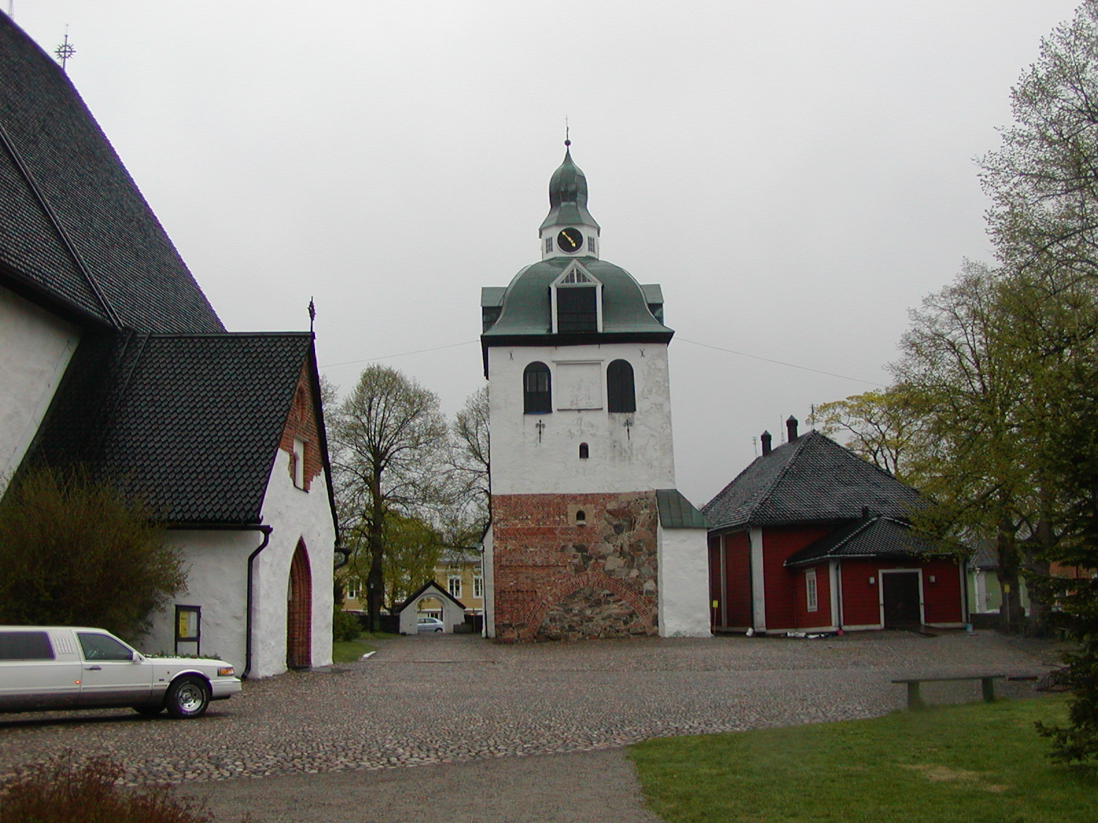 Porvoo Cathedral in Porvoo, Finland, one week before the fire on 29 May 2006